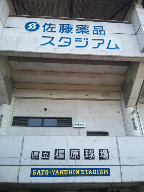 Kashiharakouen-Baseball stadium